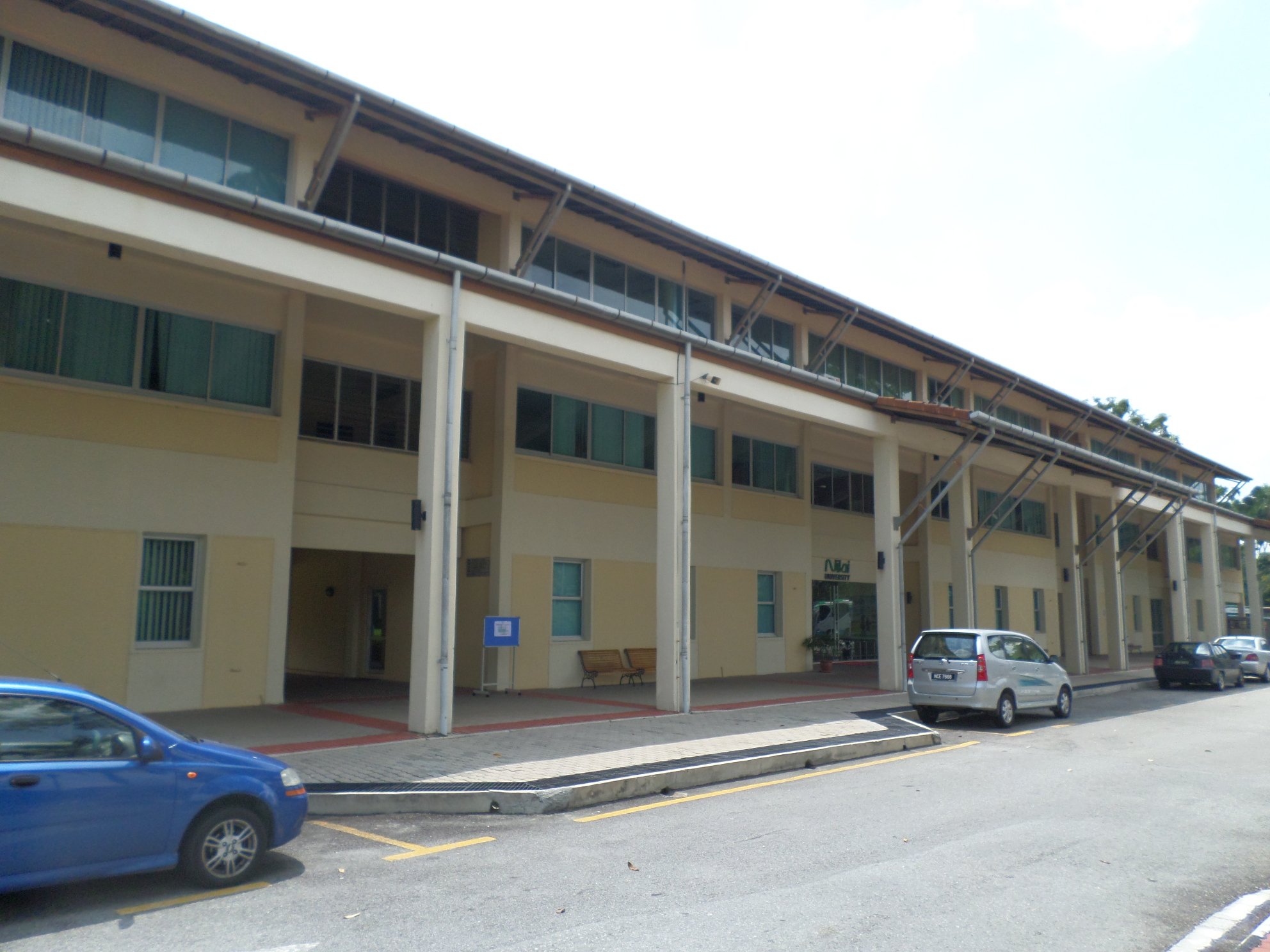 Nilai University, Nilai, Seremban, Negeri Sembilan, MalaysiaBahasa Melayu: Universiti Nilai, Nilai, Seremban, Negeri Sembilan, Malaysia